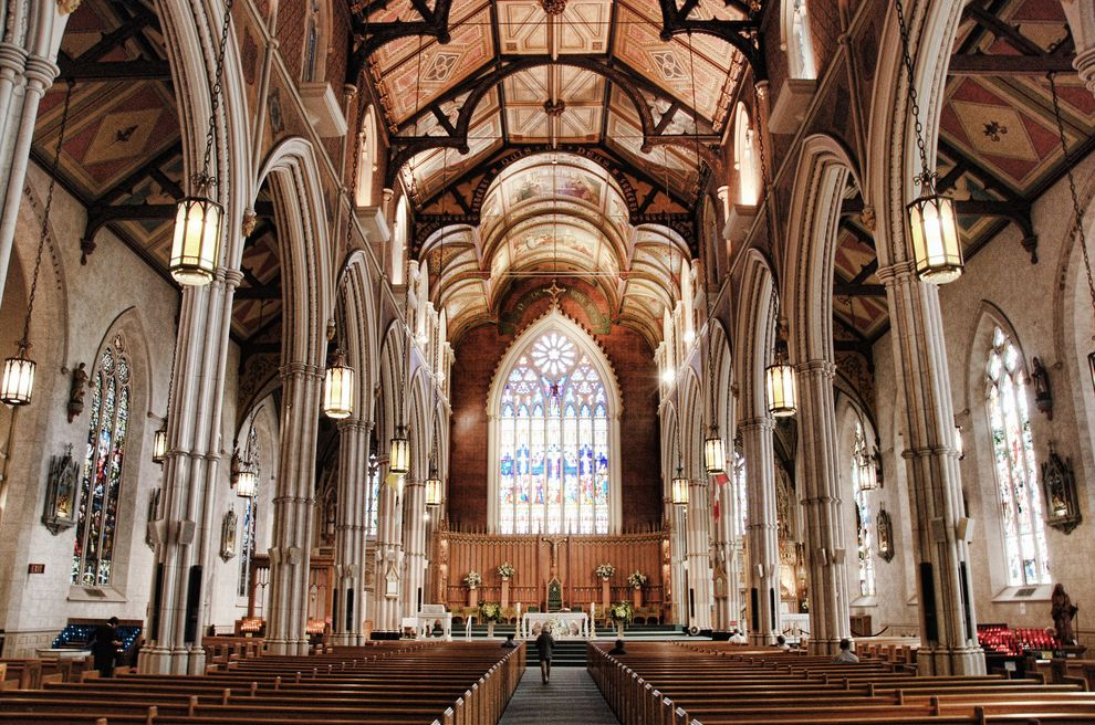 Interior of St. Michael's Cathedral, Toronto, Canada.